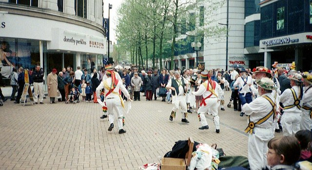 Morris Dancers - Croydon North End. Picture taken outside the Whitgift Centre probably in Spring 2001. Photo scanned from an APS negative.